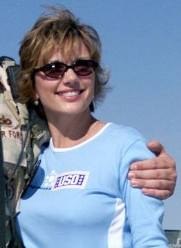 Teryl Rothery